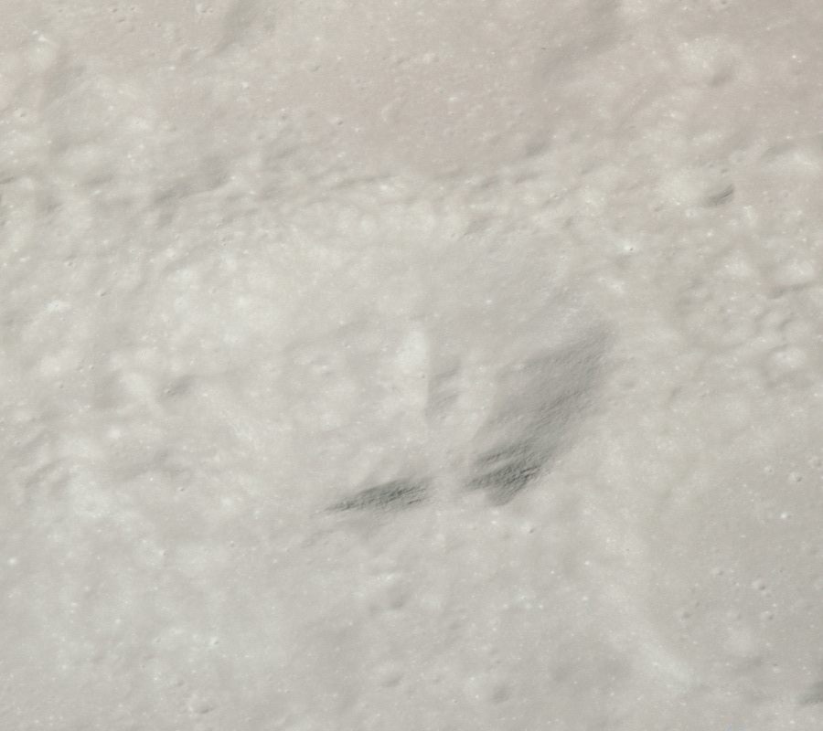 Oblique view of Kirchhoff crater, on the moon.